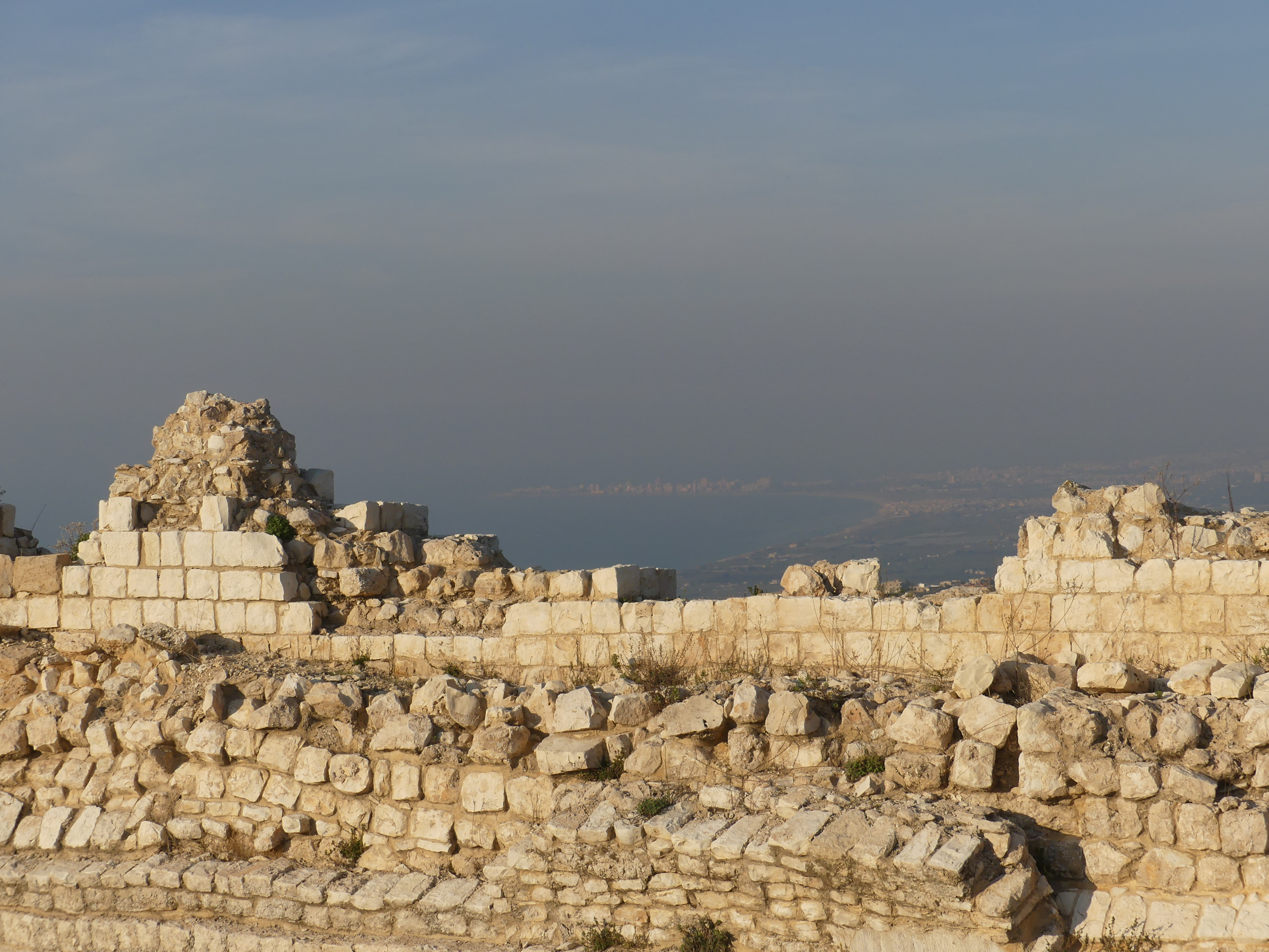 View of the Tyre peninsula and coastal plain from the castle of Chamaa (also spelled Chama'a, Chama, or Shama), in Southern Lebanon, some 25 km southeast of Tyre. Built in 1116 by the Frankish Crusaders over the remains of Roman-Byzantine buildings, the citadel was partly destroyed by Israeli attacks in the 2006 war.